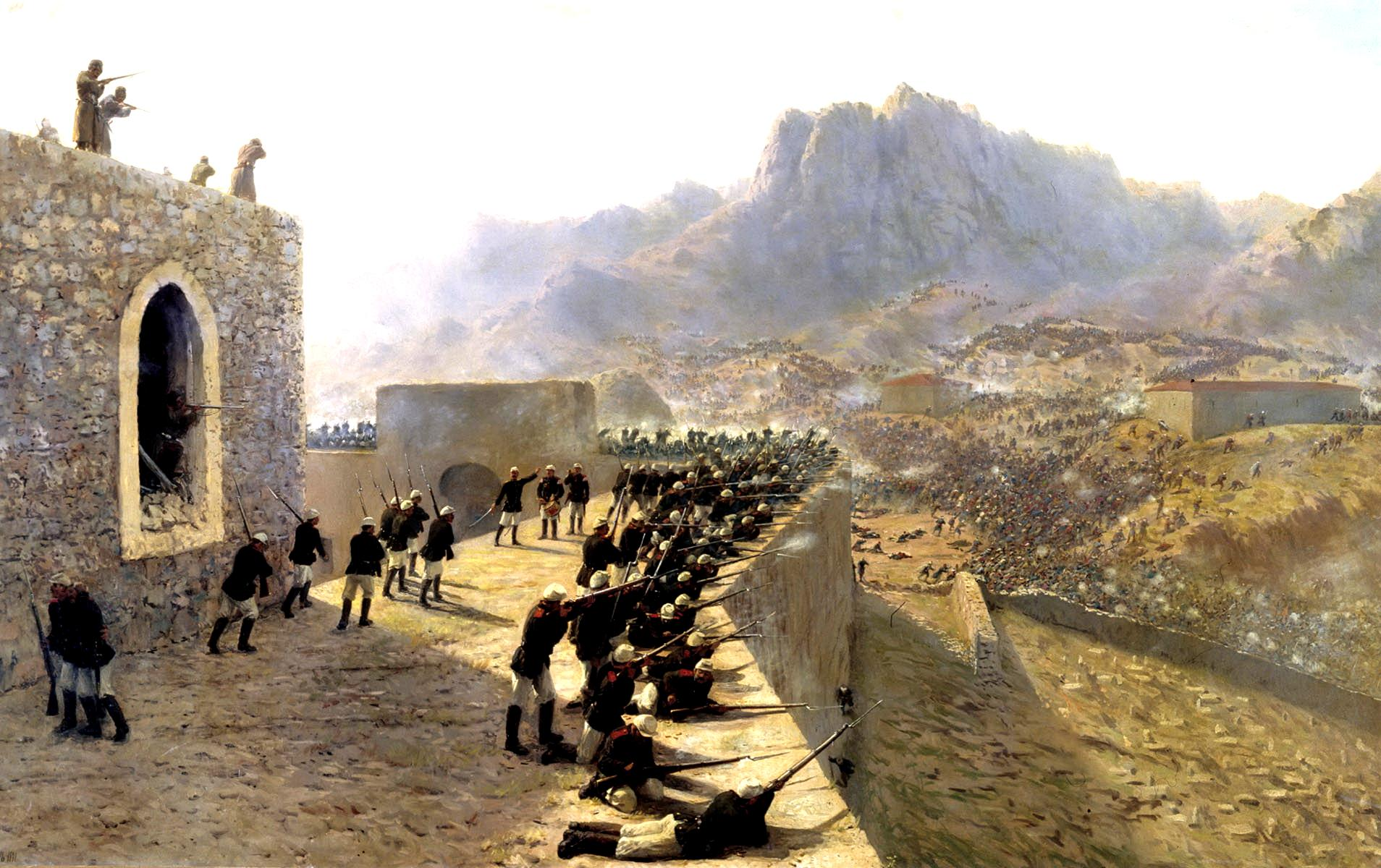 The repulsion of the Bajazet fortress assault June 8, 1877, 1891. Oil on canvas. 138 x 225 cm Central Military Historical Museum of Artillery, Engineers and Signal Corps, St. Petersburg, Russia